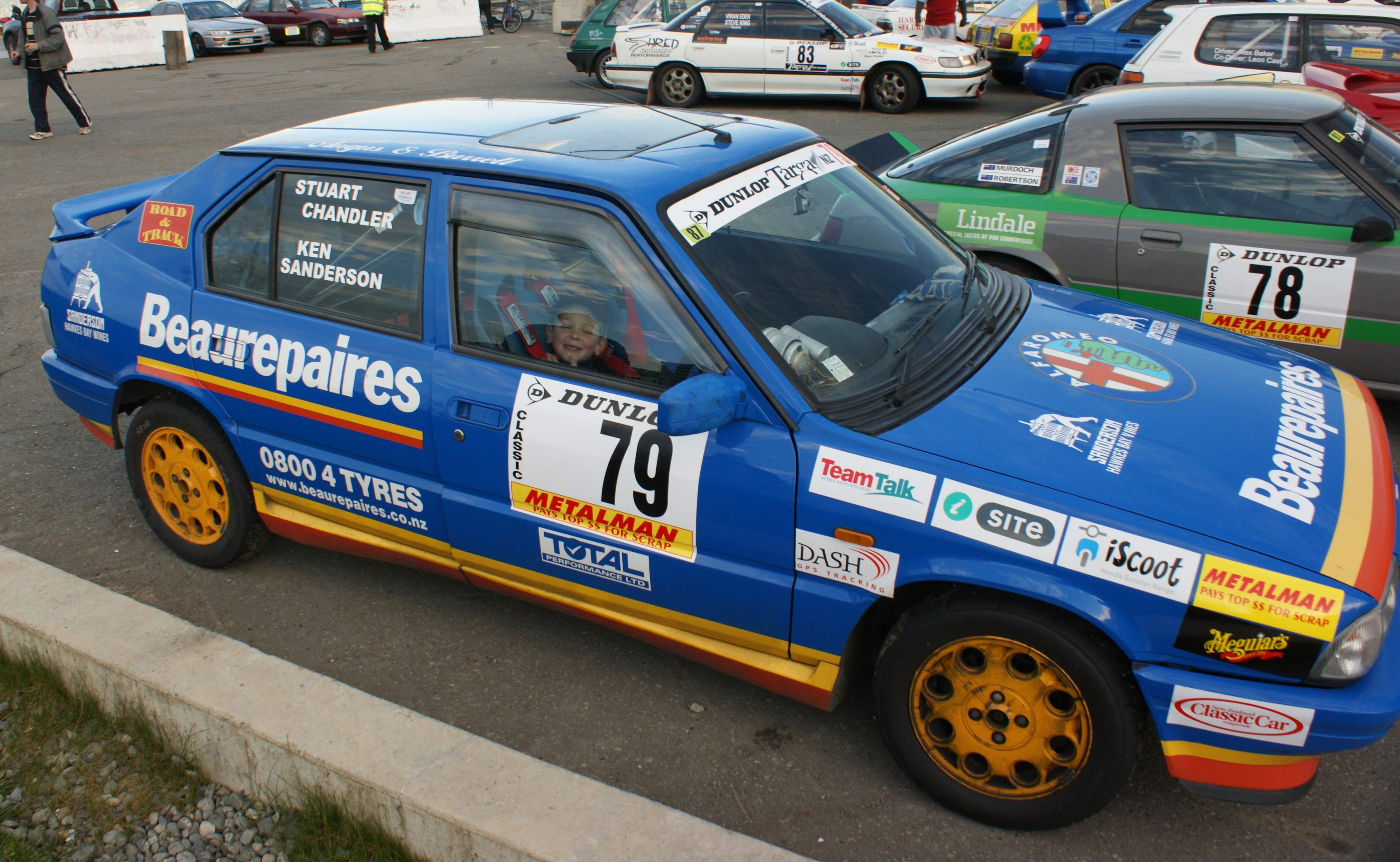 Targa Rally 2009